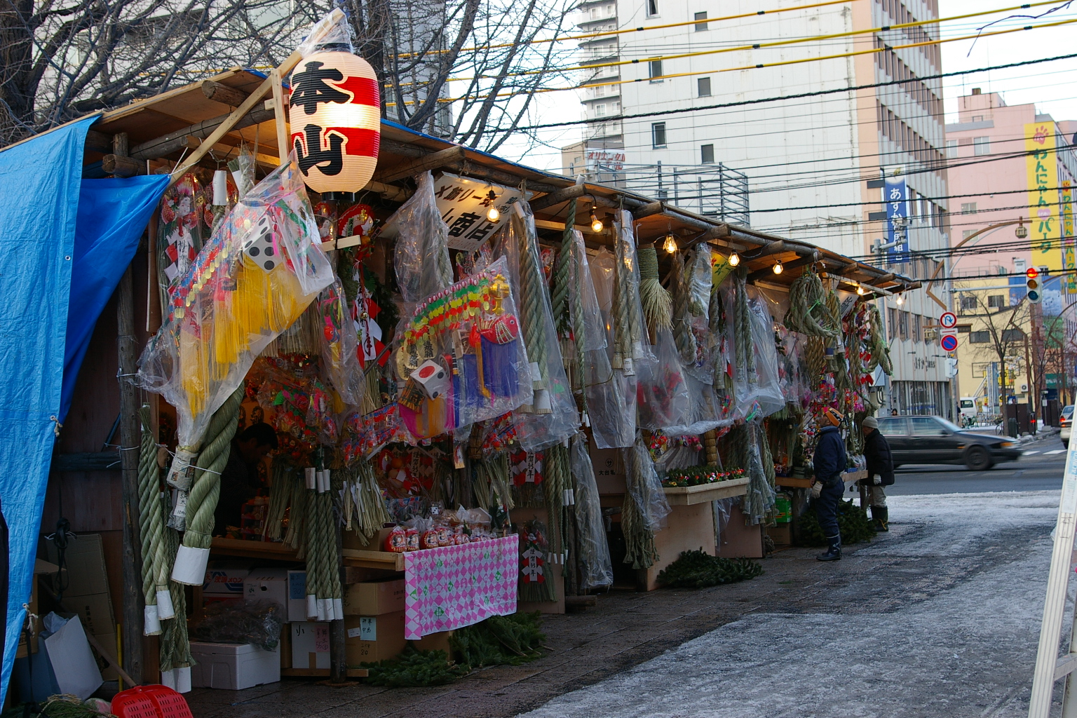 Appearance of "Toshi-no-ichi" which is one of the annual events of Japan.